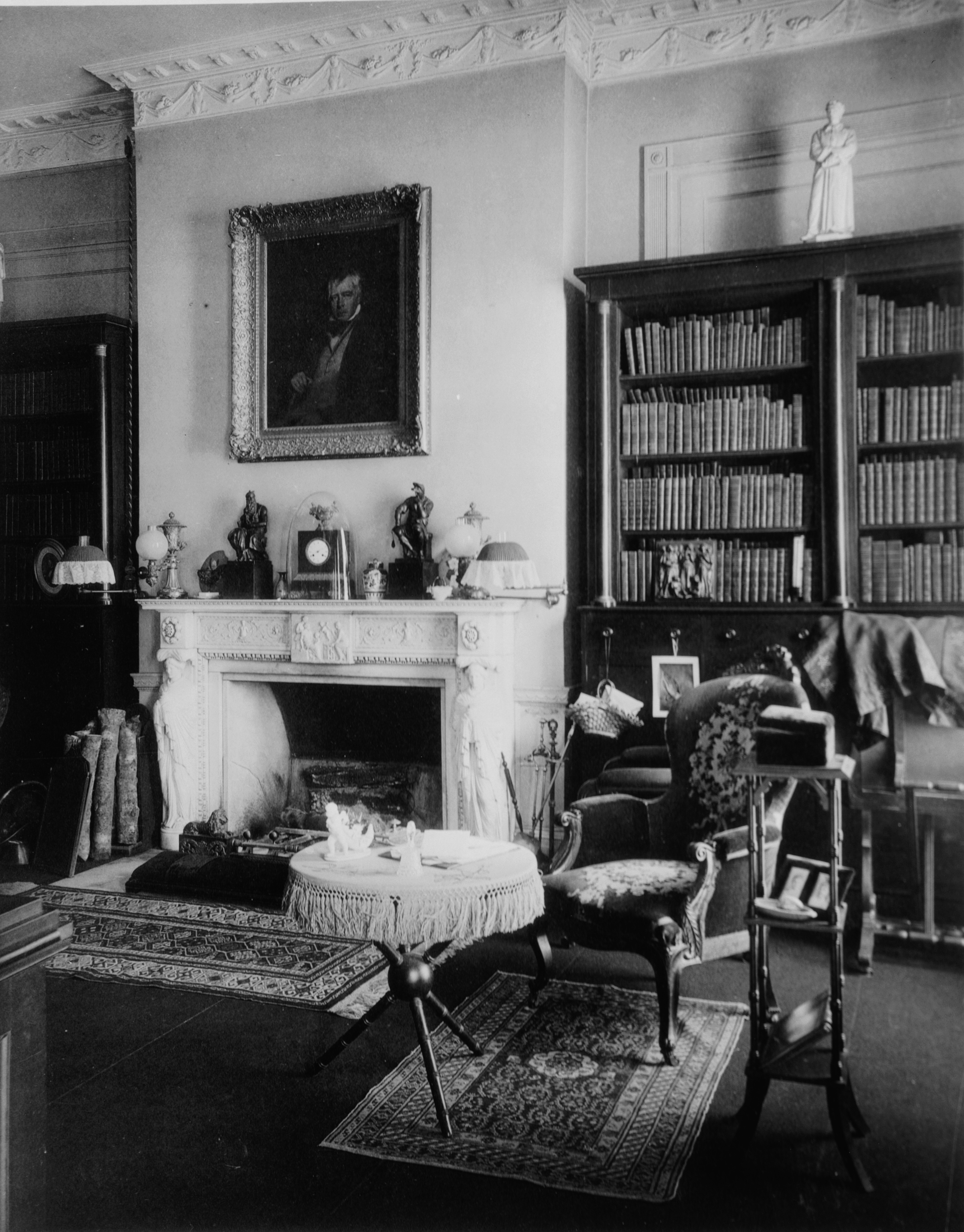 Amory-Ticknor House, 9 Park Street, Boston, Suffolk County, MA